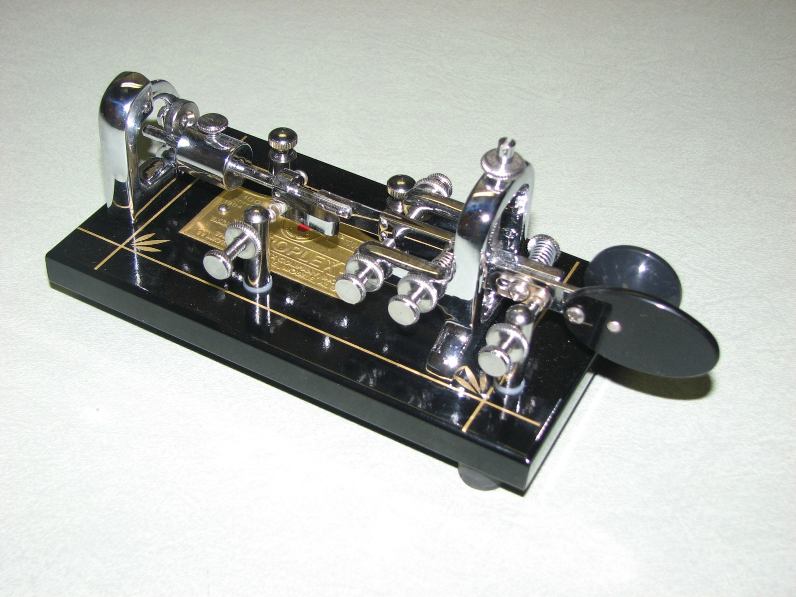 Vibroplex "100th Anniversary" semi-automatic telegraph key